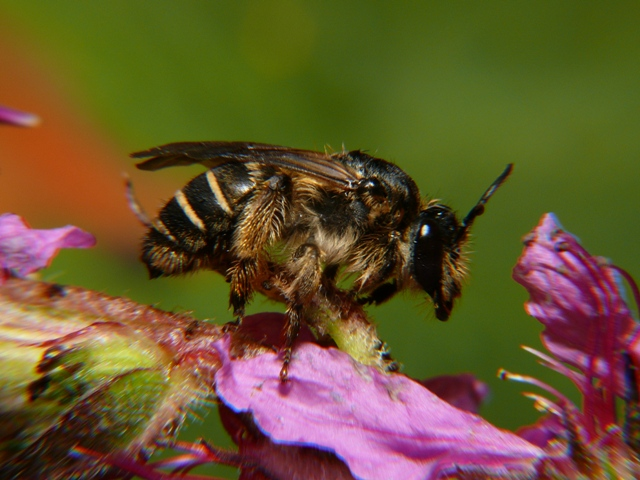 Melitta nigricans, female. Location: Wageningen - Plasserwaard (The Netherlands)